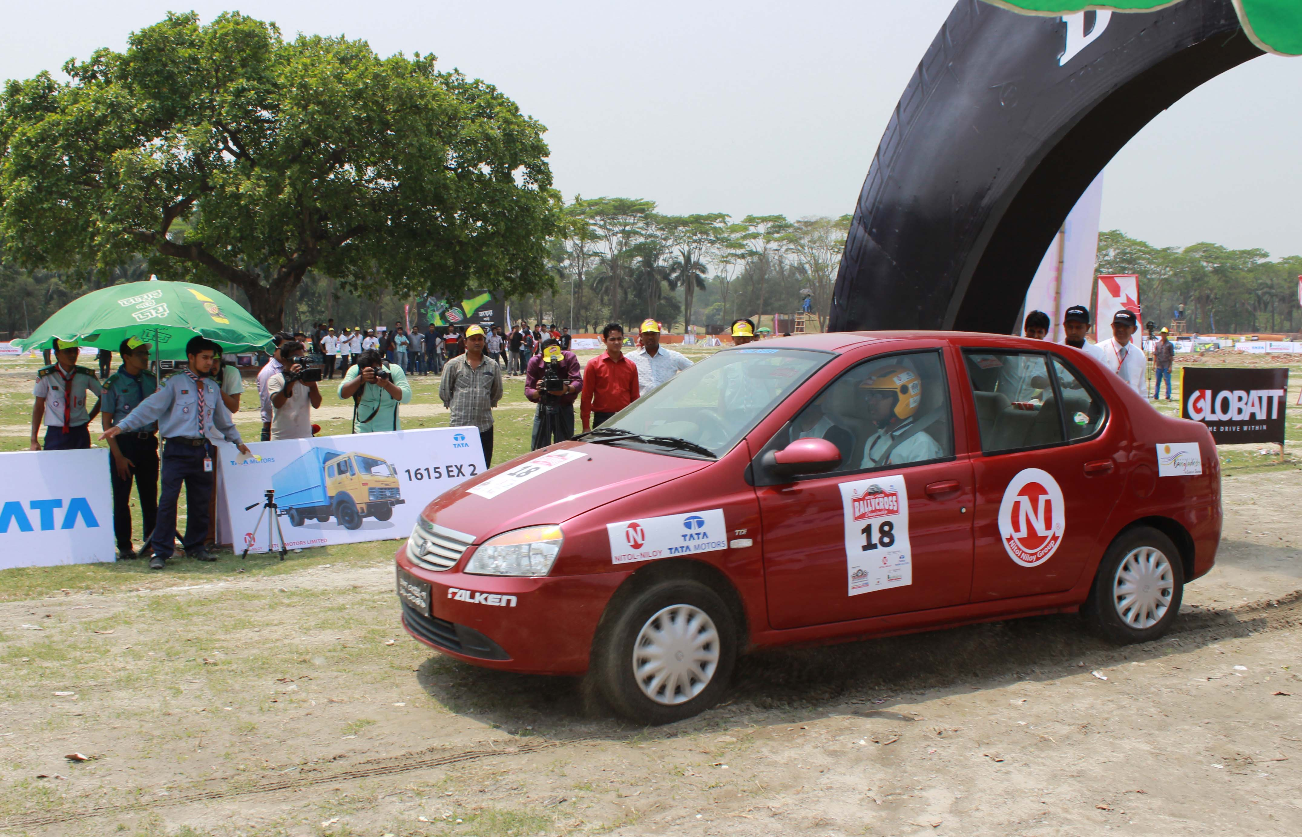 For the very first time in Bangladesh “Nitol Tata Rallycross Championship 2014”, a one day event took place in Dhaka at PWD Ground Agargaon.